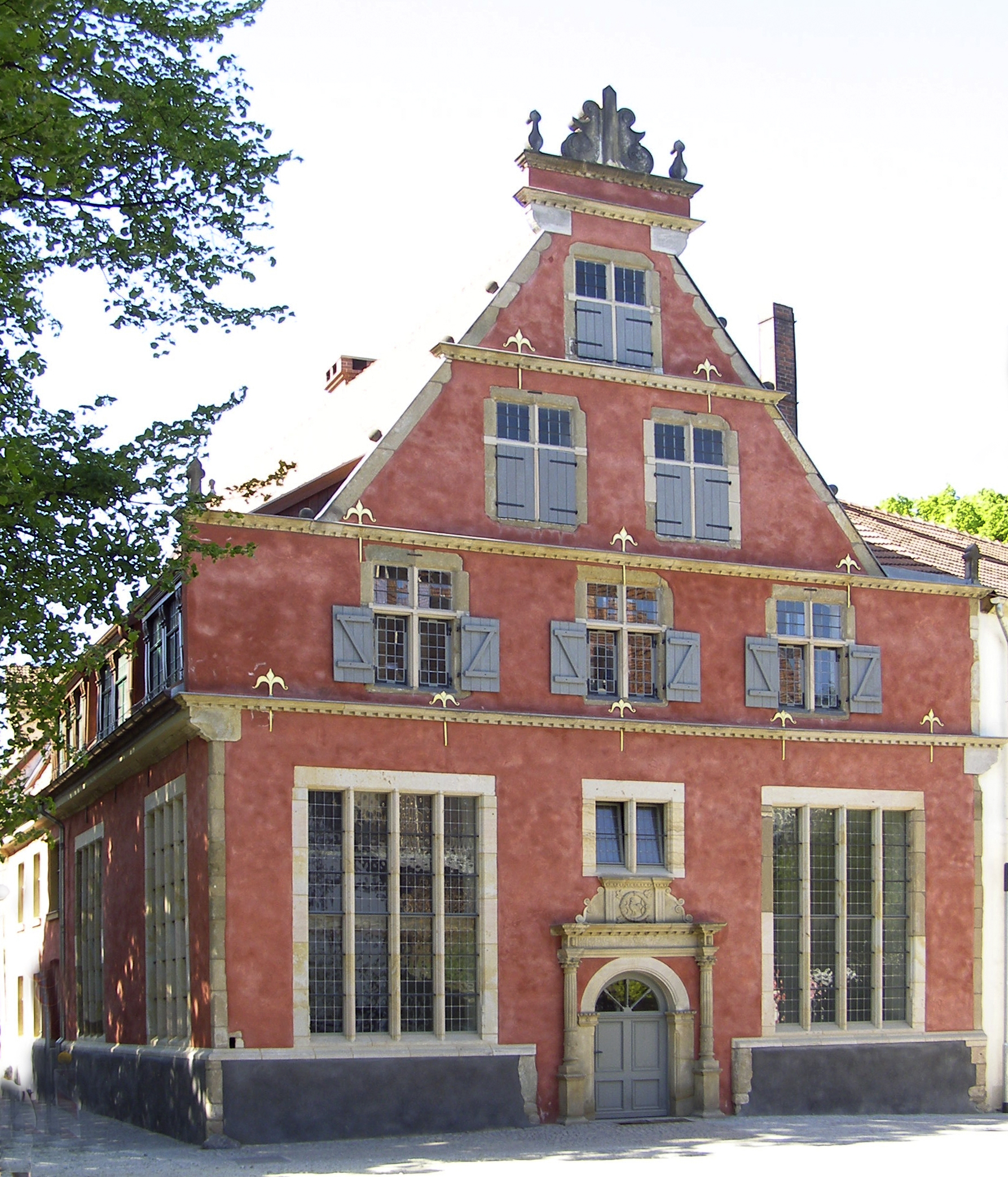 Frühherrenhaus in town of Herford, District of Herford, North Rhine-Westphalia, Germany.